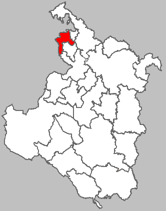 Location of municipality inside Karlovac County